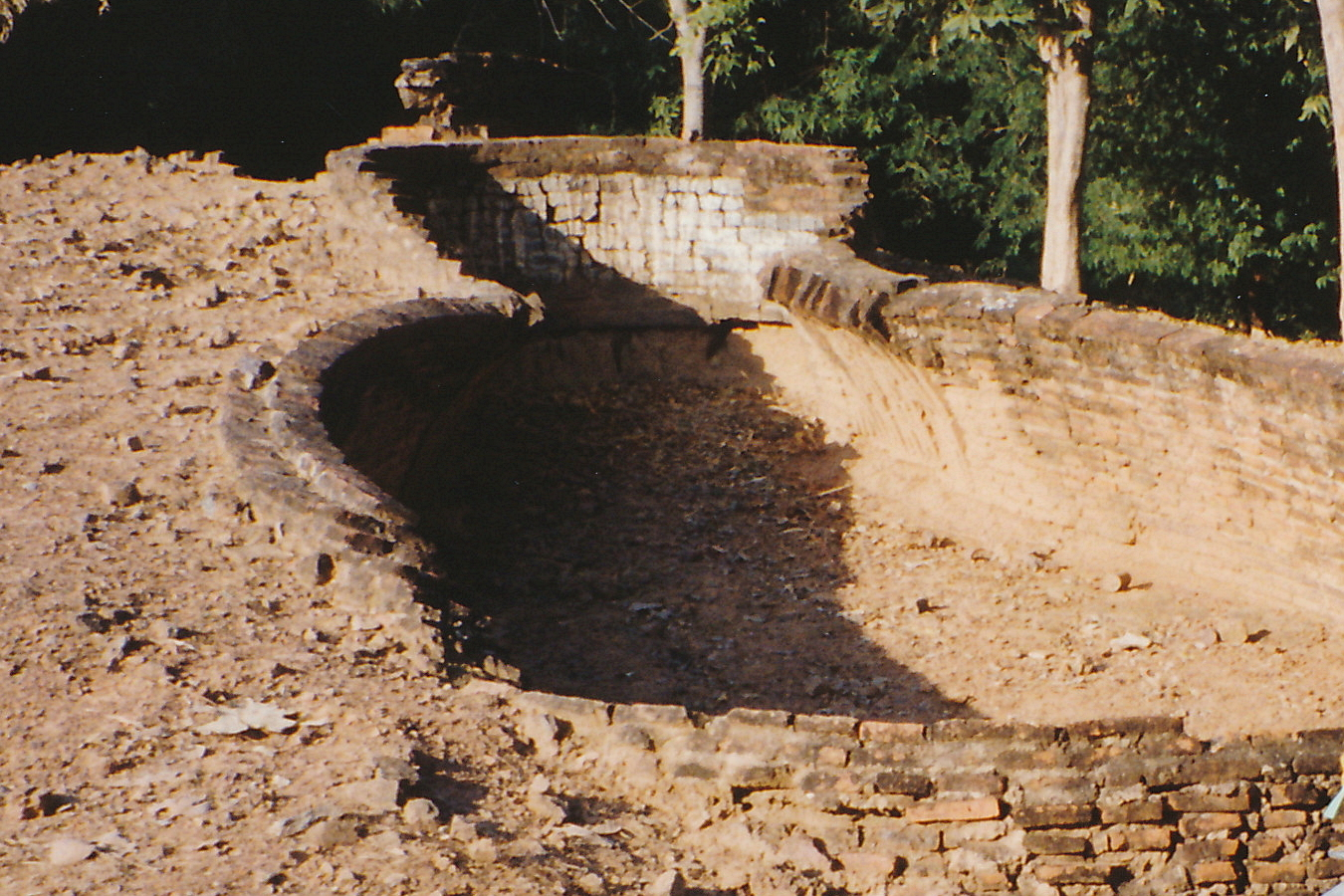 Dec. 1993